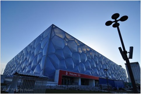 Water Cube The National Aquatics Center, Chaoyang Beijing